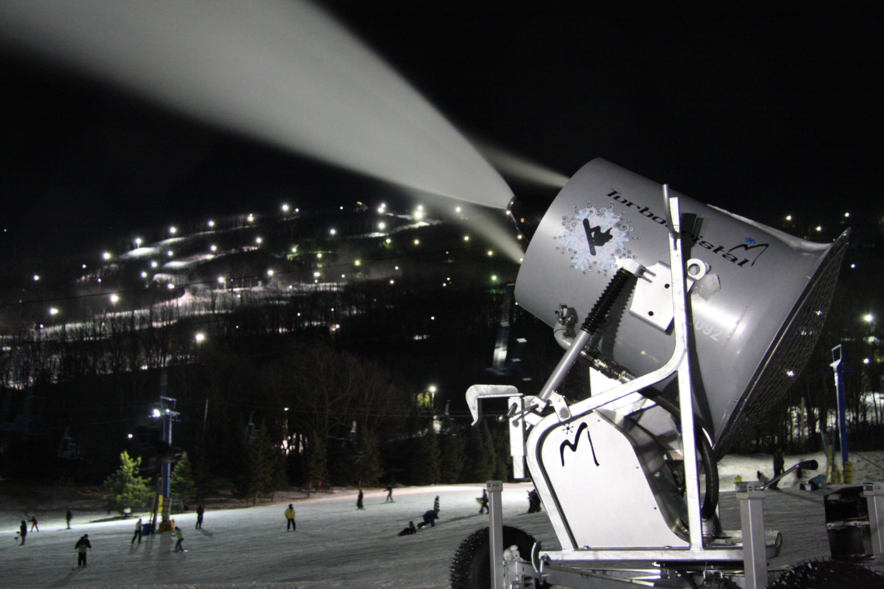 Snow Production at Camelback Ski Area, Tannersville, Pennsylvania, USA